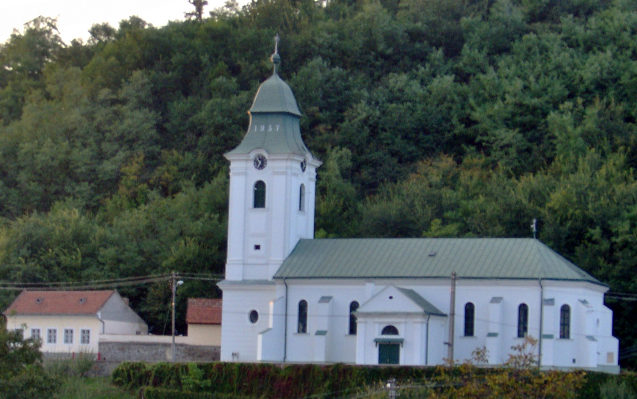 Ref. church in Şimleu Silvaniei